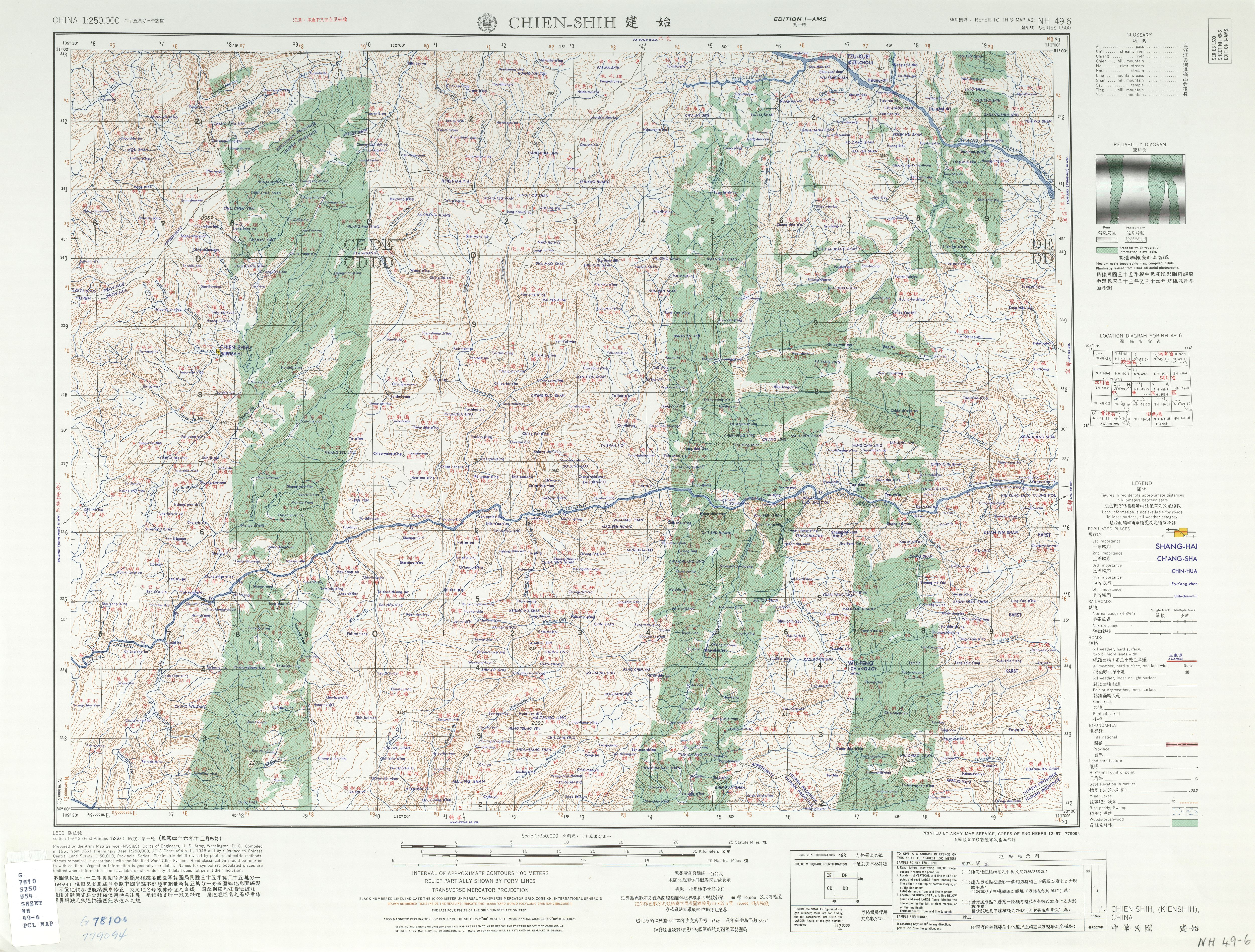 China AMS Topographic Maps